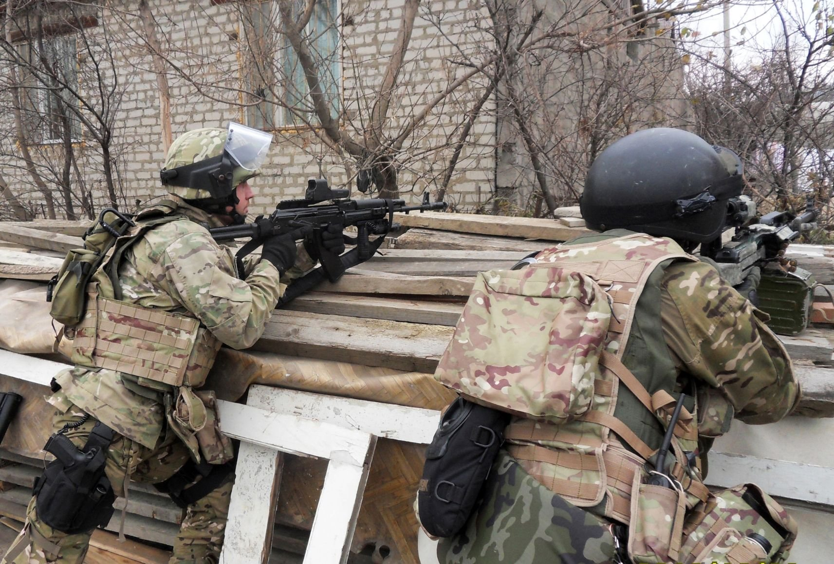 “Antiterrorist operation in Makhachkala”. Russian Federal Security Service employees during a special operation in Makhachkala. One militant was killed and two terrorist attacks prevented.